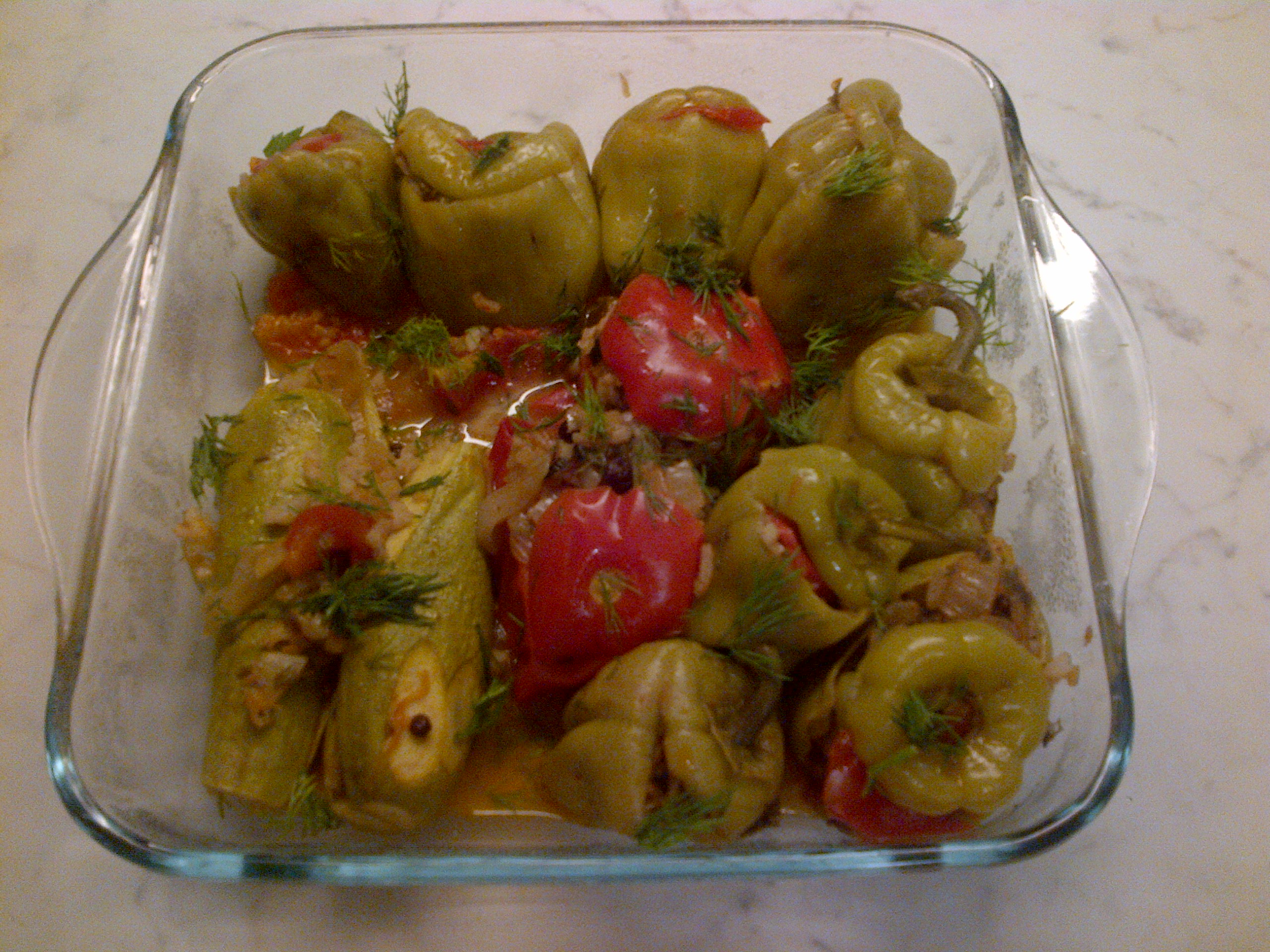 Green bell pepper (notice that in Turkey we have bell peppers which have a very very thin skin), tomato and courgette (zucchini) "yalancı" dolmas in Turkey.